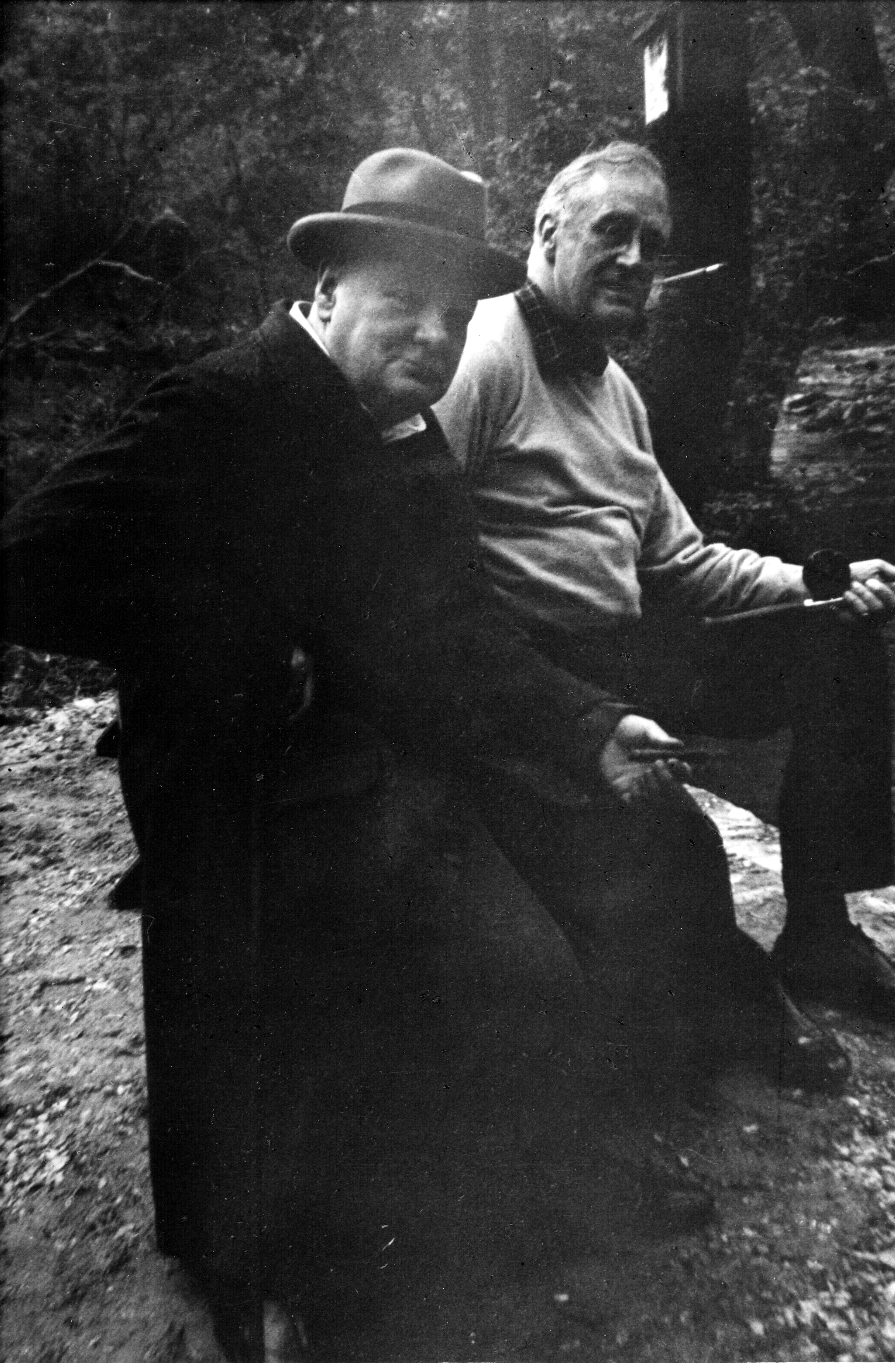 Photograph of Winston Churchill and Franklin D. Roosevelt fishing at Shangri-La